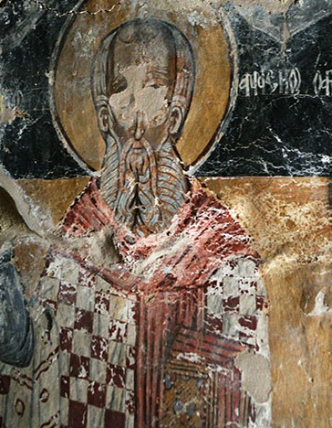 Saint Elijah Church in Paleogratsano Fresco